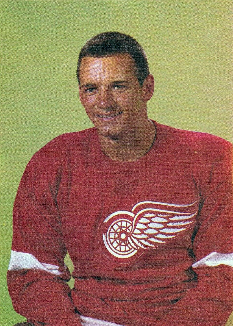 Trading card photo of Pit Martin as a member of the Detroit Redwings. These cards were printed on the backs of Chex cereal boxes in the US and Canada from 1963 to 1965. Those collecting the cards cut them from the back of the boxes. Martin's card at PSA.